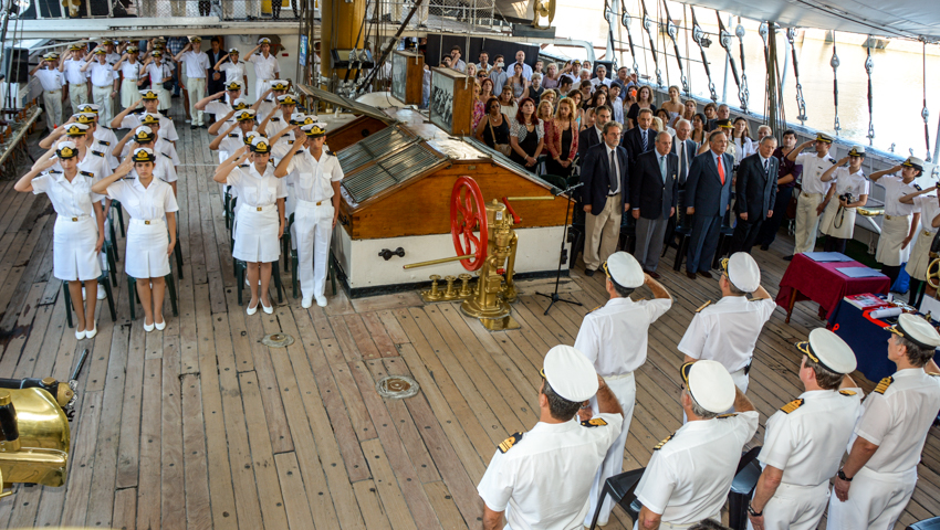 Egreso de Guardiamarinas del Liceo Naval Militar "Almirante Guillermo Brown", a bordo de la Fragata Presidente Sarmiento